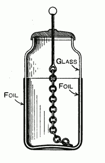 A Leyden jar, shown sectioned through its center to reveal construction, from a 1914 radio book. The Leyden jar was an antique electrical component which stored electric charge; the first form of capacitor. It consisted of a glass jar with metal foil cemented to the inside and outside surfaces. A nonconductive stopper covered the mouth, through which a brass electrode passed, ending in a chain which made contact with the inner foil. The jar was charged by touching the central electrode to a source of high voltage static electricity such as an electrostatic machine. The foil stopped short of the jar mouth to prevent the jar from discharging by arcs between the inner and outer foil through the mouth.